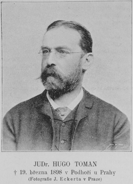 Portrait of Josef Toman (1838-1898), Czech lawyer, historian and writer.